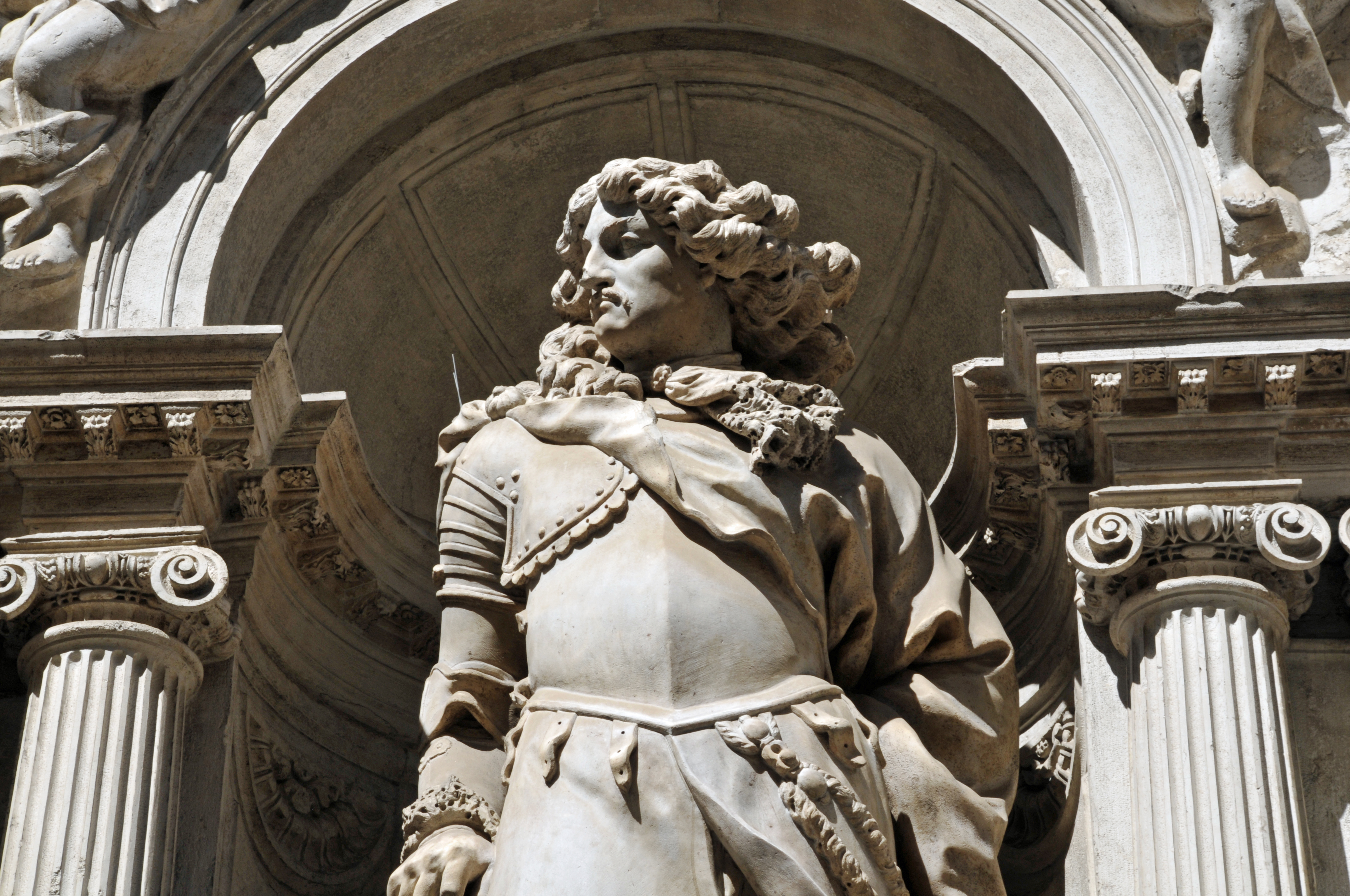 Francesco Barbaro attributed to Josse de Corte at the church of Santa Maria del Giglio in Venice, Italy